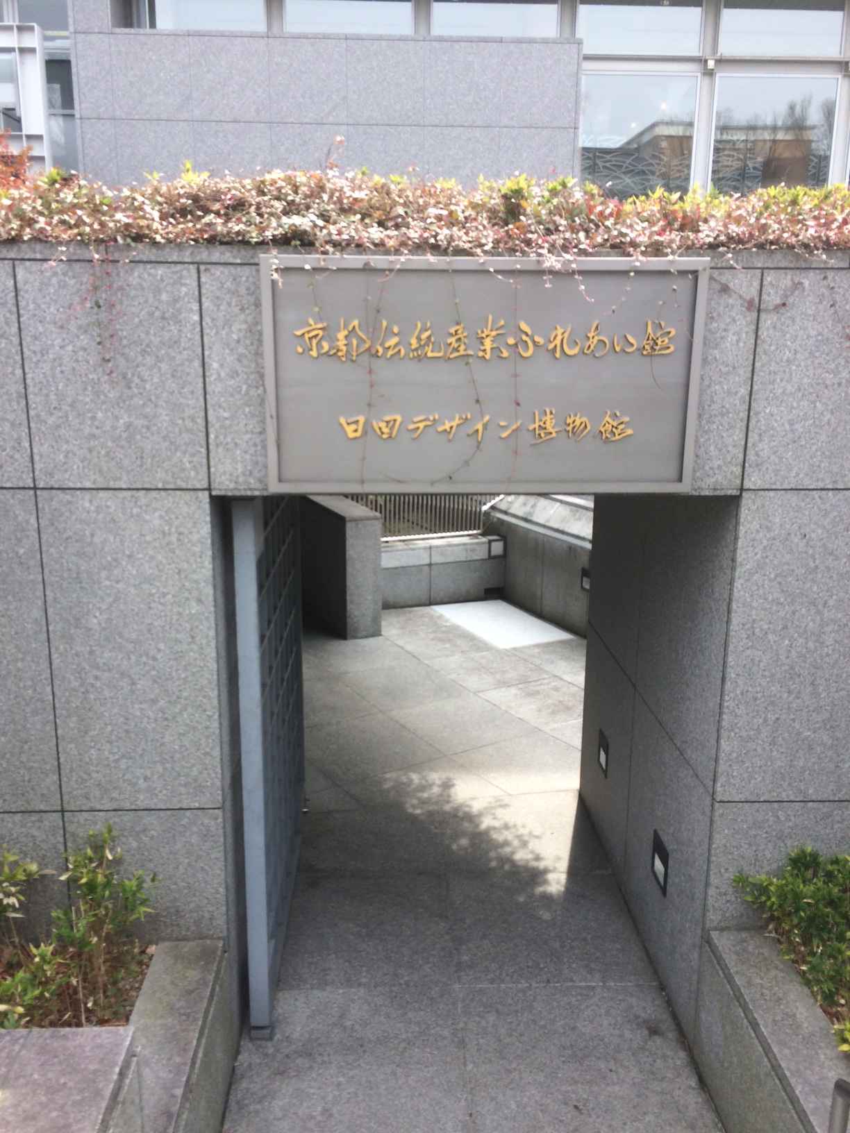 kyoto city Miyakomese